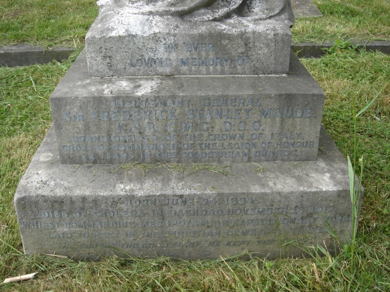 Memorial to Frederick Stanley Maude, Brompton Cemetery.